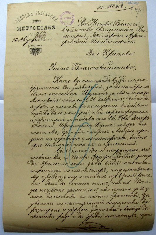 A Letter from Synesius of Skopje to Dimitar, the diocese representative in Kratovo about Kozma from Mount Athos who is about to be appointed as abbot of Lesnovo Monastery, 30 August 1895.